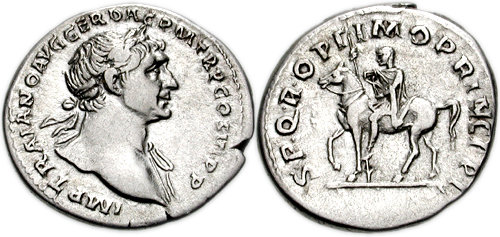 TRAJAN. 98-117 AD. AR Denarius (19mm, 3.35 g, 7h). Struck 112-114/115 AD. IMP TRAIANO AVG GER DAC P M TR P COS VI P P, laureate bust right, drapery on far shoulder S P Q R OPTIMO PRINCIPI, equestrian statue of Trajan left, holding spear and sword (or small Victory). RIC II 291 var. (draped); BMCRE 445; RSC 497a. EF, small flan crack.